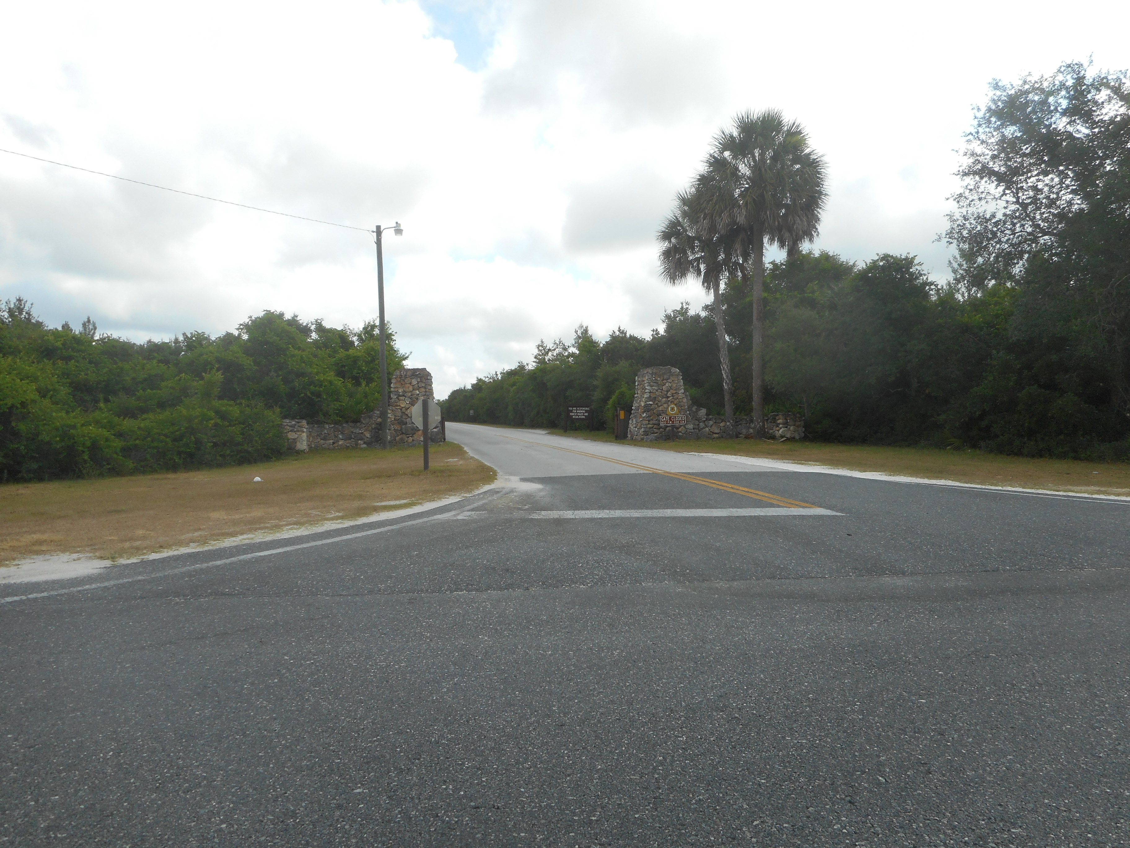 The stone trapezoidal gateway to the Juniper Springs Recreation Area as seen from eastbound Florida State Road 40 in Ocala National Forest. Taken from the left turn lane of SR 40 but not inside the recreational area itself. Behind those big stones are actual wooden gates that are opened and closed by park rangers. On the stone obelisk to the right is a USFS Fee area sign shaped like a National Auto Trails sign, and below that is the sign for opening and closing hours. Since I had plans to capture other parts of the vicinity of the forest, besides this one, I decided to go no further than this and make a U-Turn. Nevertheless I snapped a few other scenes from this area.